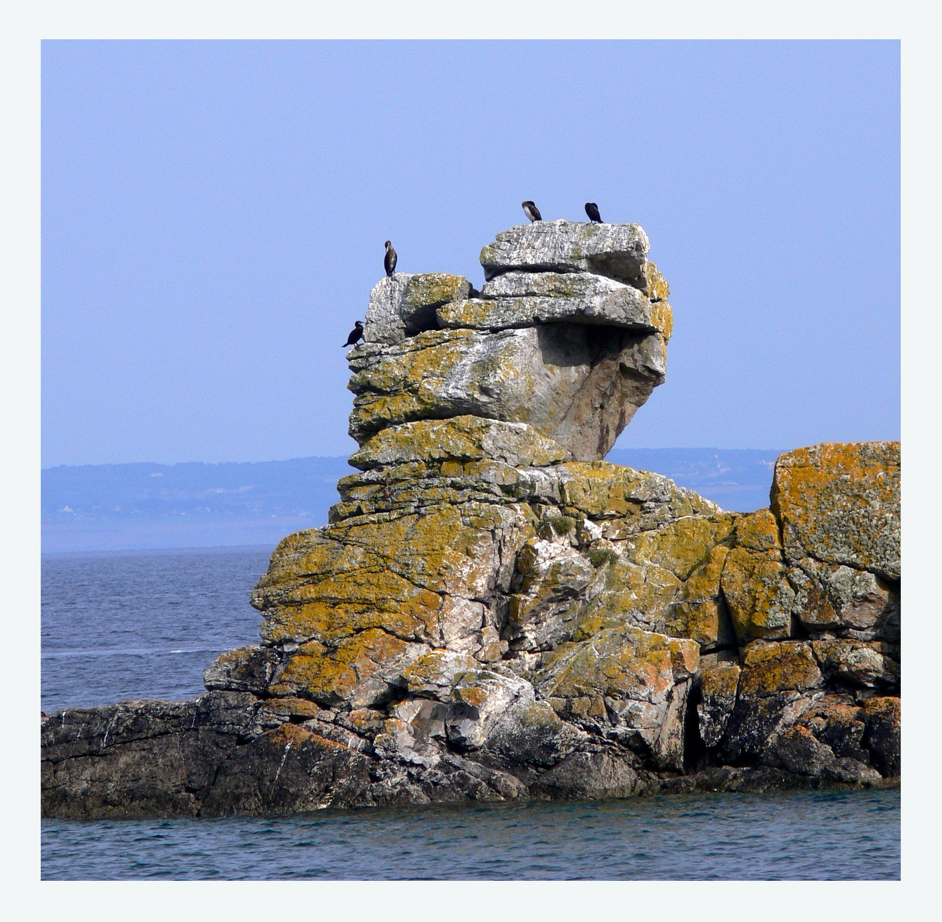 "pointe du gador" Morgat, Britain, France